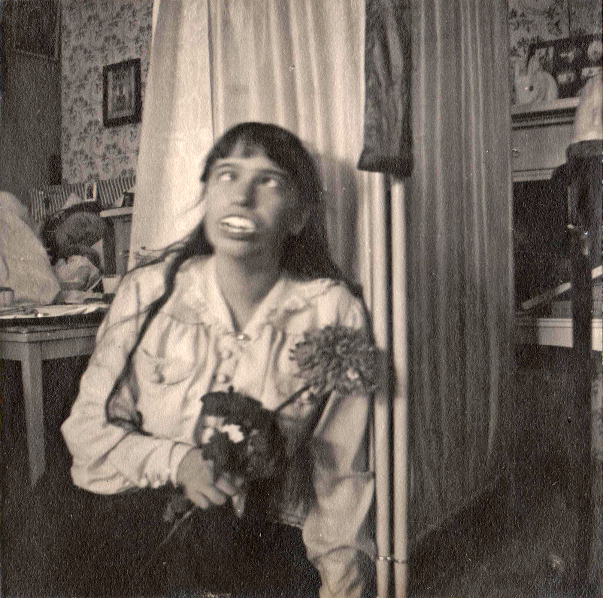 Anastasia Nikolaevna of Russia fooling around.